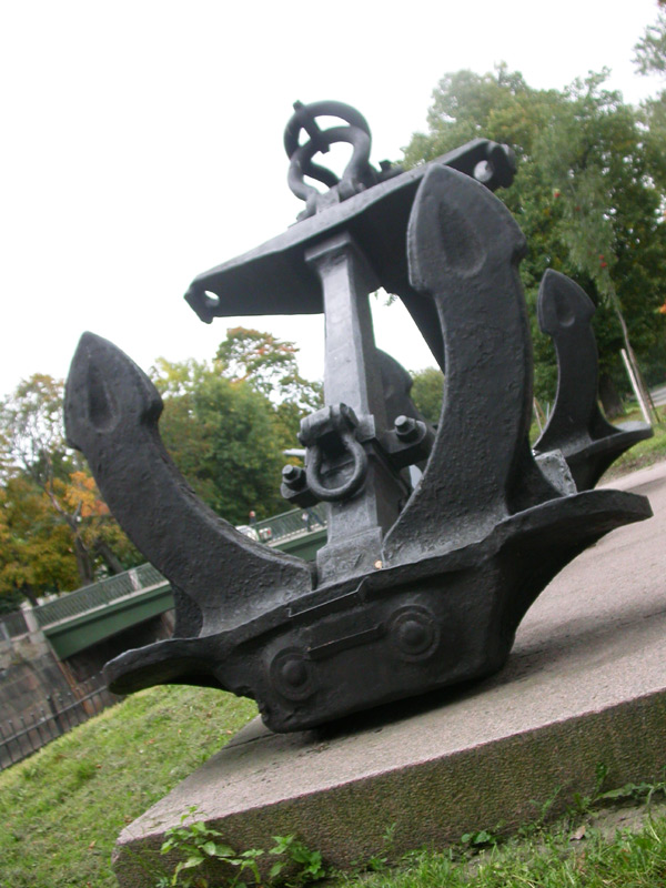 Yakor kronshtadt